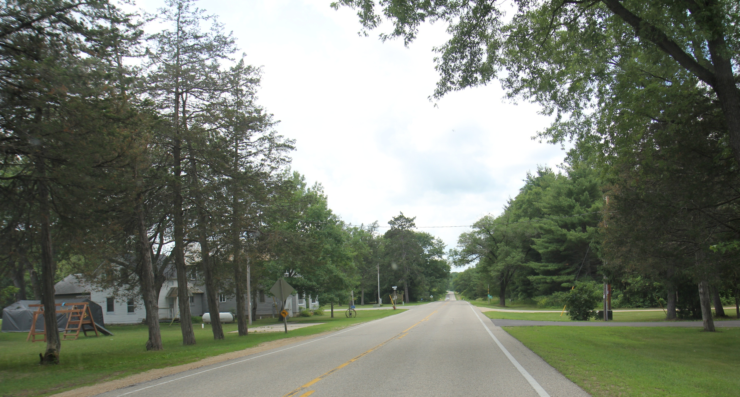 looking at Budsin, Wisconsin.